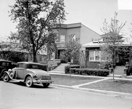 Home of Al Capone, viewed at an angle from across the street, located at 7244 Prairie Avenue in the Greater Grand Crossing community area of Chicago, Illinois. An automobile is parked along the curb in front of the house.